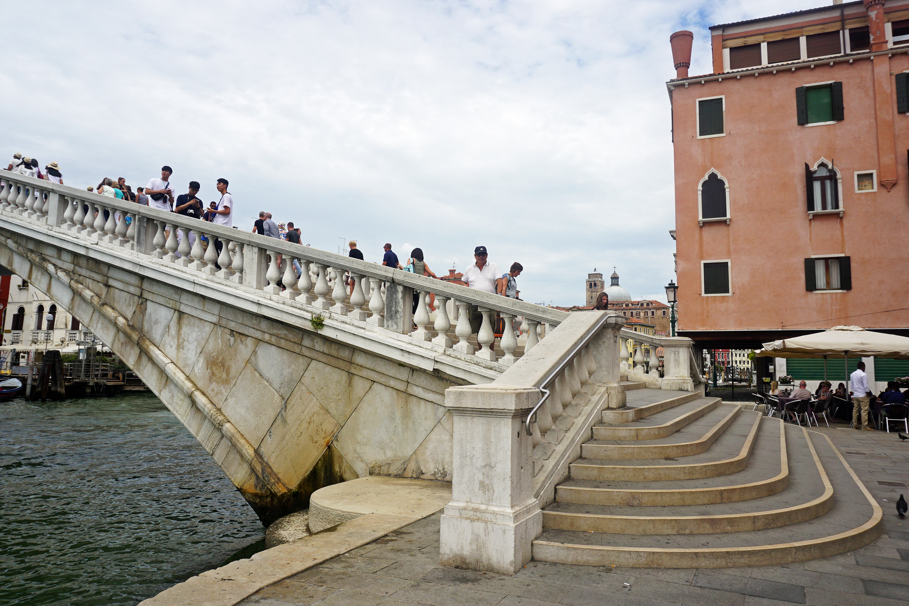 Ponte degli Scalzi steps on the Santa Croce district side, Venezia, Italy.